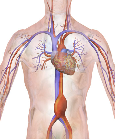 Abdominal Aneurysm. See a full animation of this medical topic.